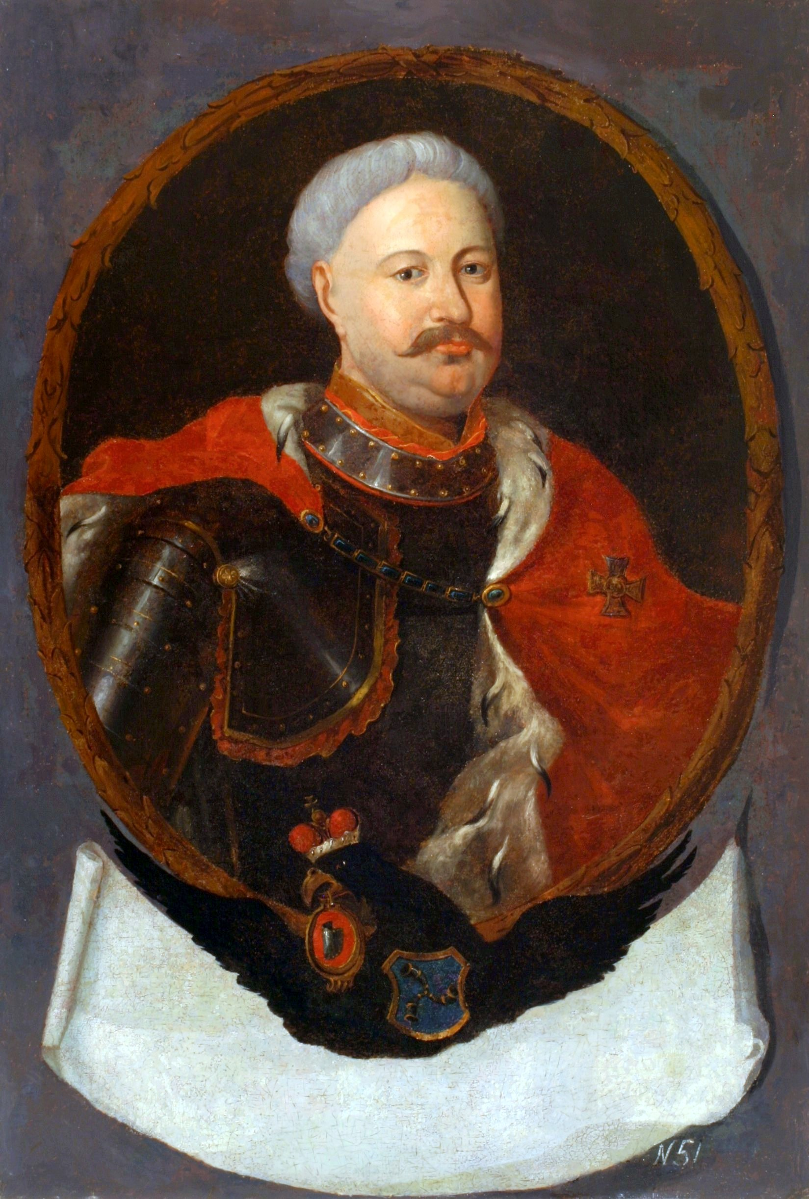 Portrait of Karol Stanisław Radziwiłł (1669–1719)